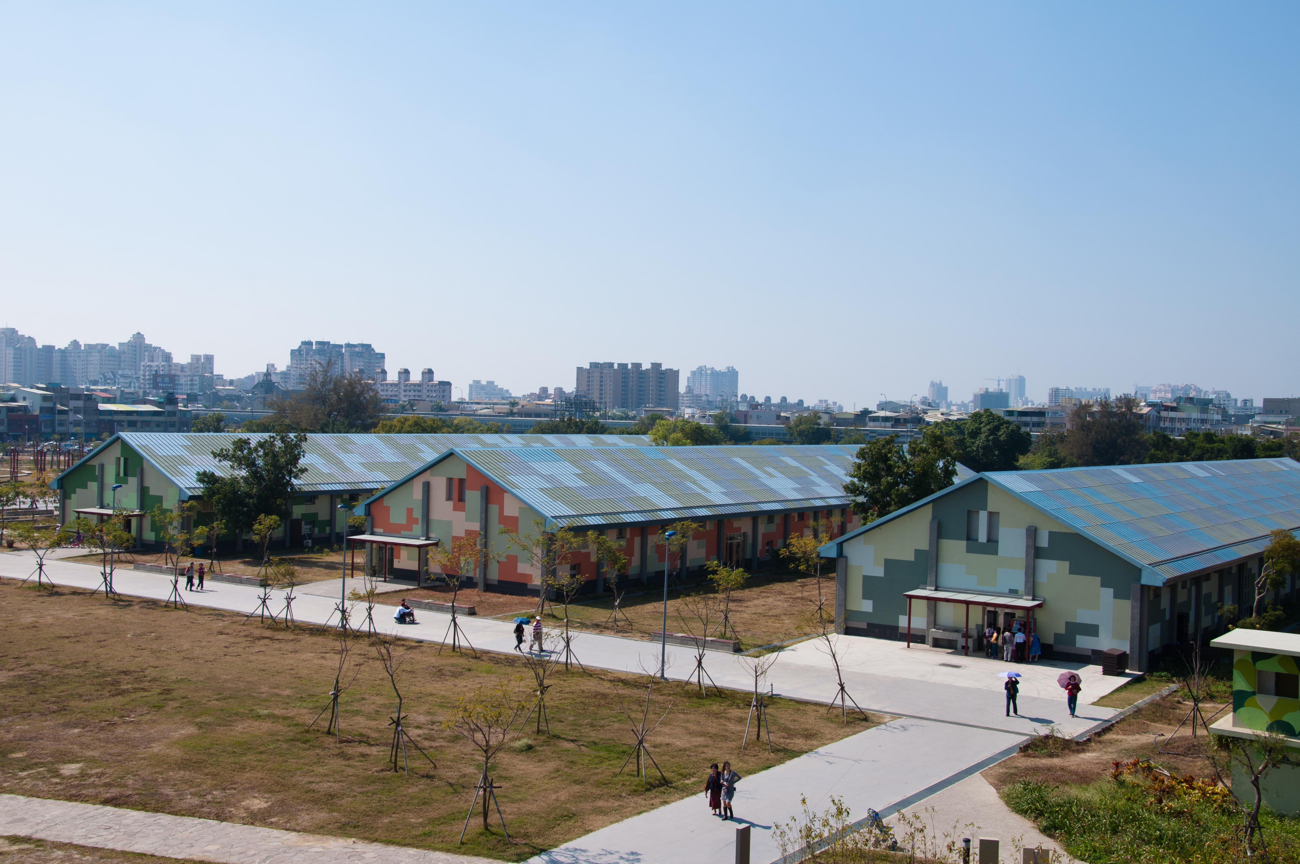 Weiwuyin Metropolitan Park